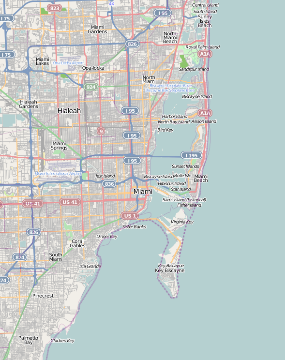 This map of Miami was created from OpenStreetMap project data, collected by the community. This map may be incomplete, and may contain errors. Don't rely solely on it for navigation. Border coordinates25.972-80.357←↕→-80.03125.601